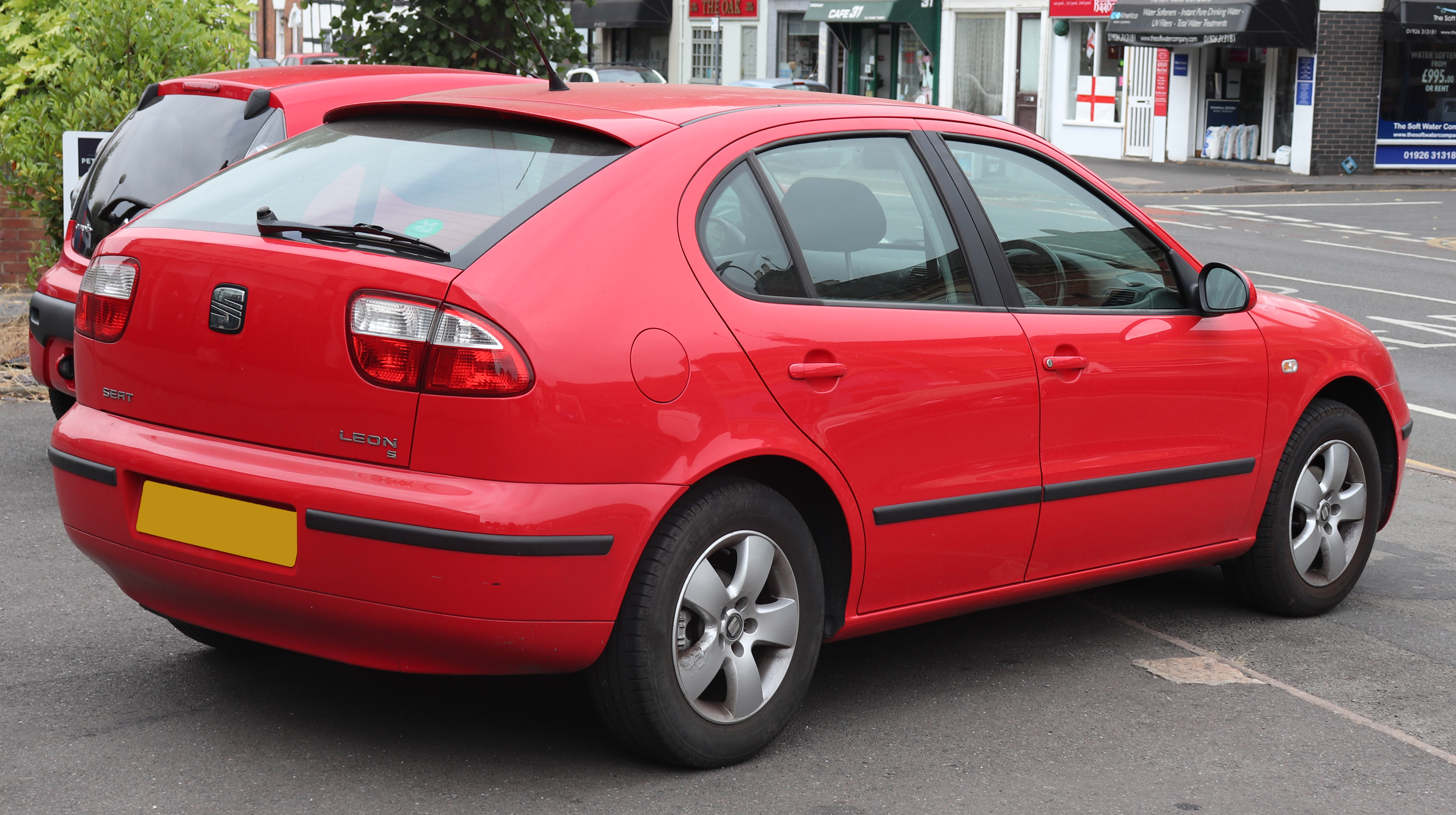 2004 SEAT Leon SX 1.6 Taken in Warwick